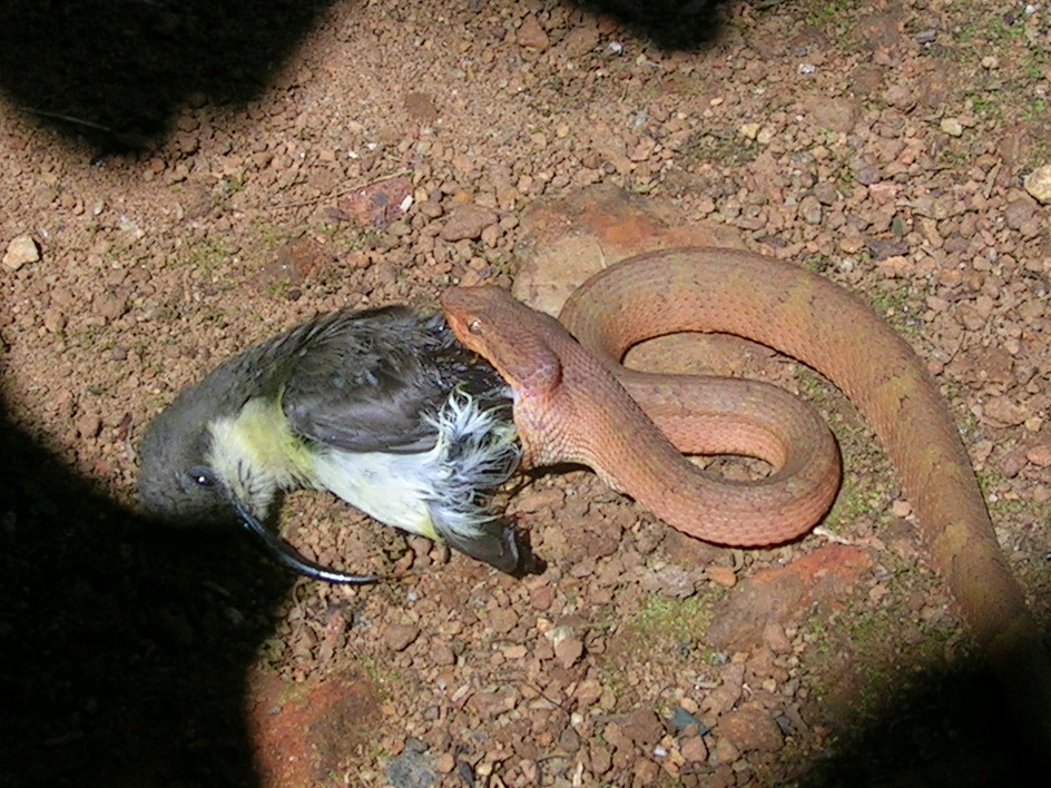 Malabar Pit Viper - Trimeresurus malabaricus with a female Loten's Sunbird it has captured. The bird was later rejected. Location: Wayanad, Kerala